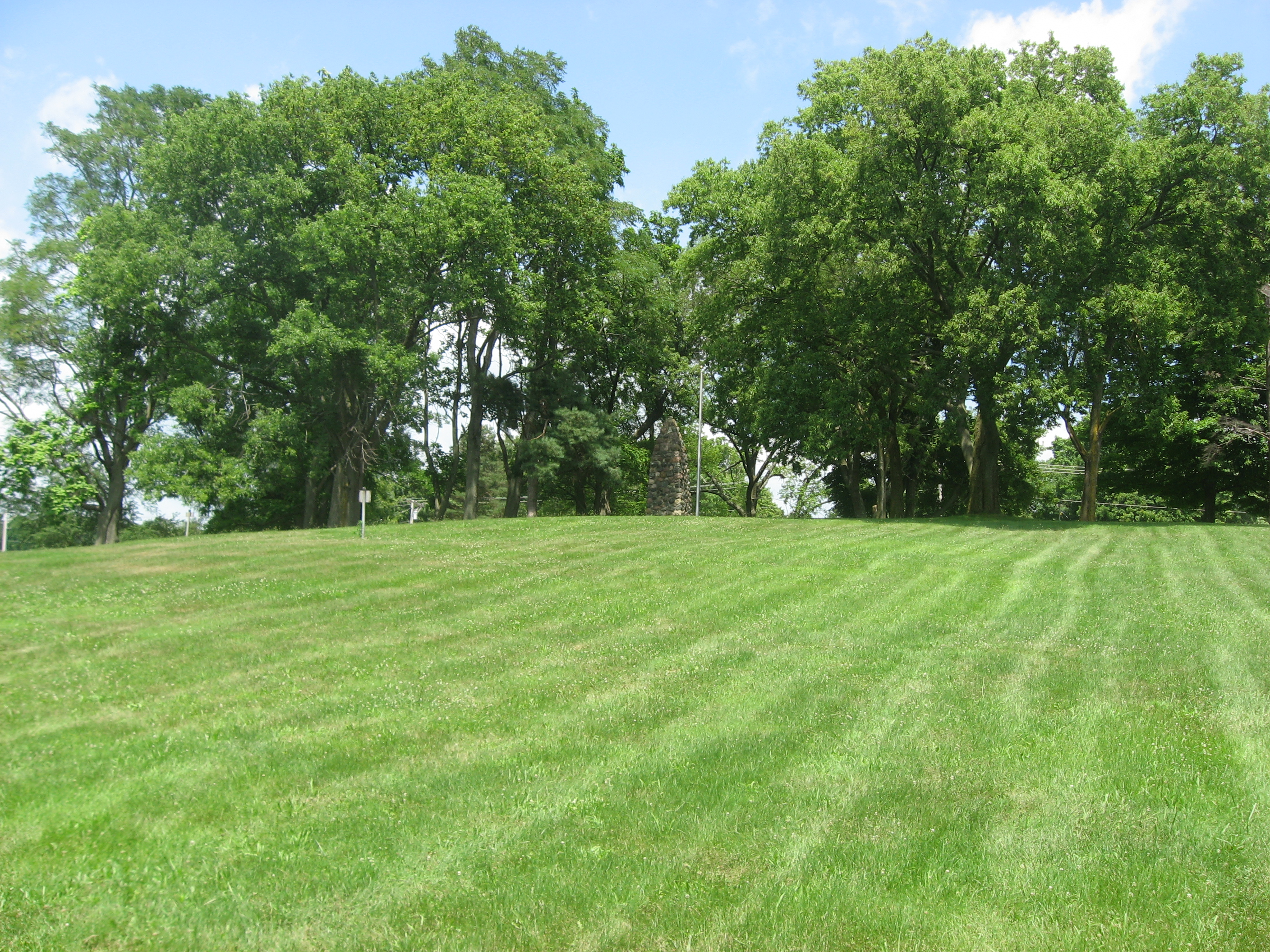 Hillside on the southern portion of the side of Fort Jefferson, located along State Route 121 west of the community of Fort Jefferson in Neave Township, Darke County, Ohio, United States. Built during the Northwest Indian War under the direction of Arthur St. Clair, the fort was a supply depot that endured several long sieges. Today, the fort site is an archaeological site, and it is listed on the National Register of Historic Places.